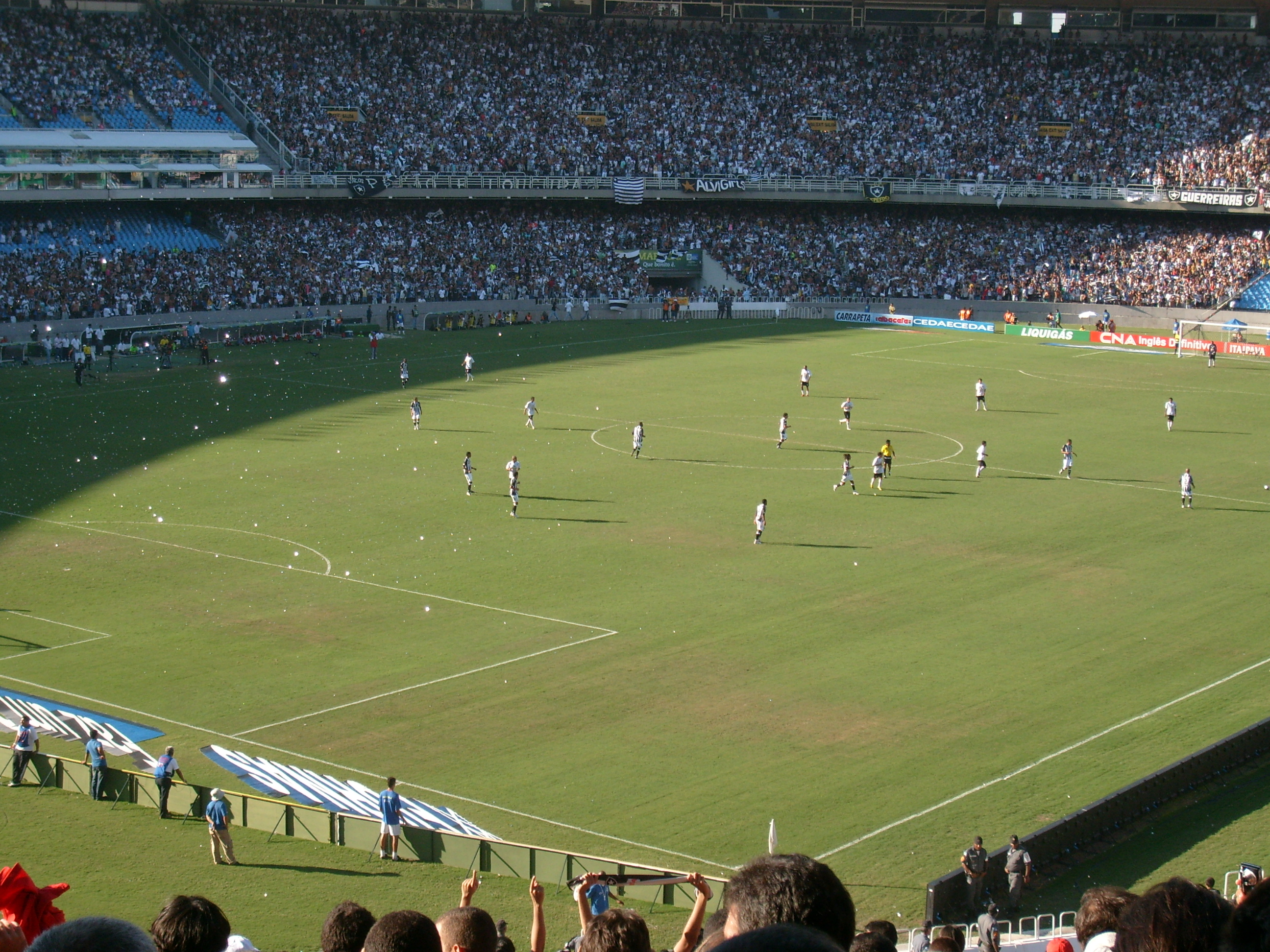 2009 Taça Guanabara's final match: Botafogo 3-0 Resende.